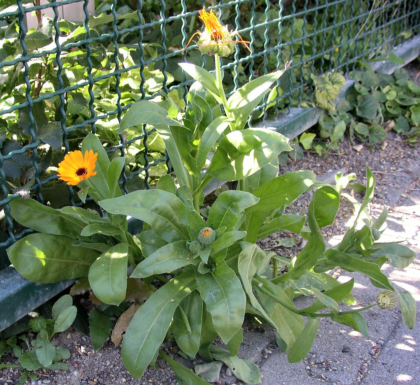 Ringelblume (Calendula officinalis), Asteraceae